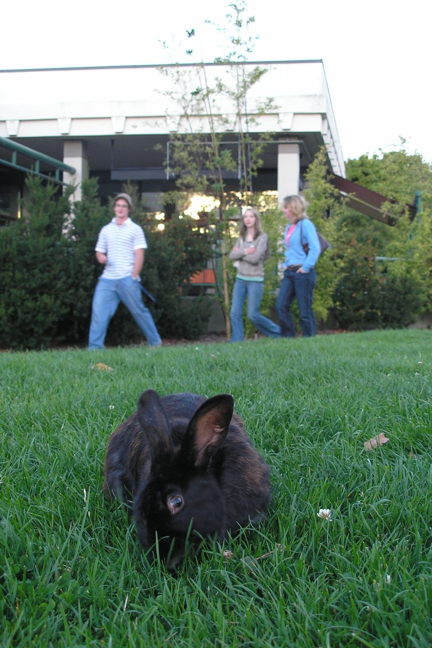 A rabbit and UVic students near the Craigdarroch office